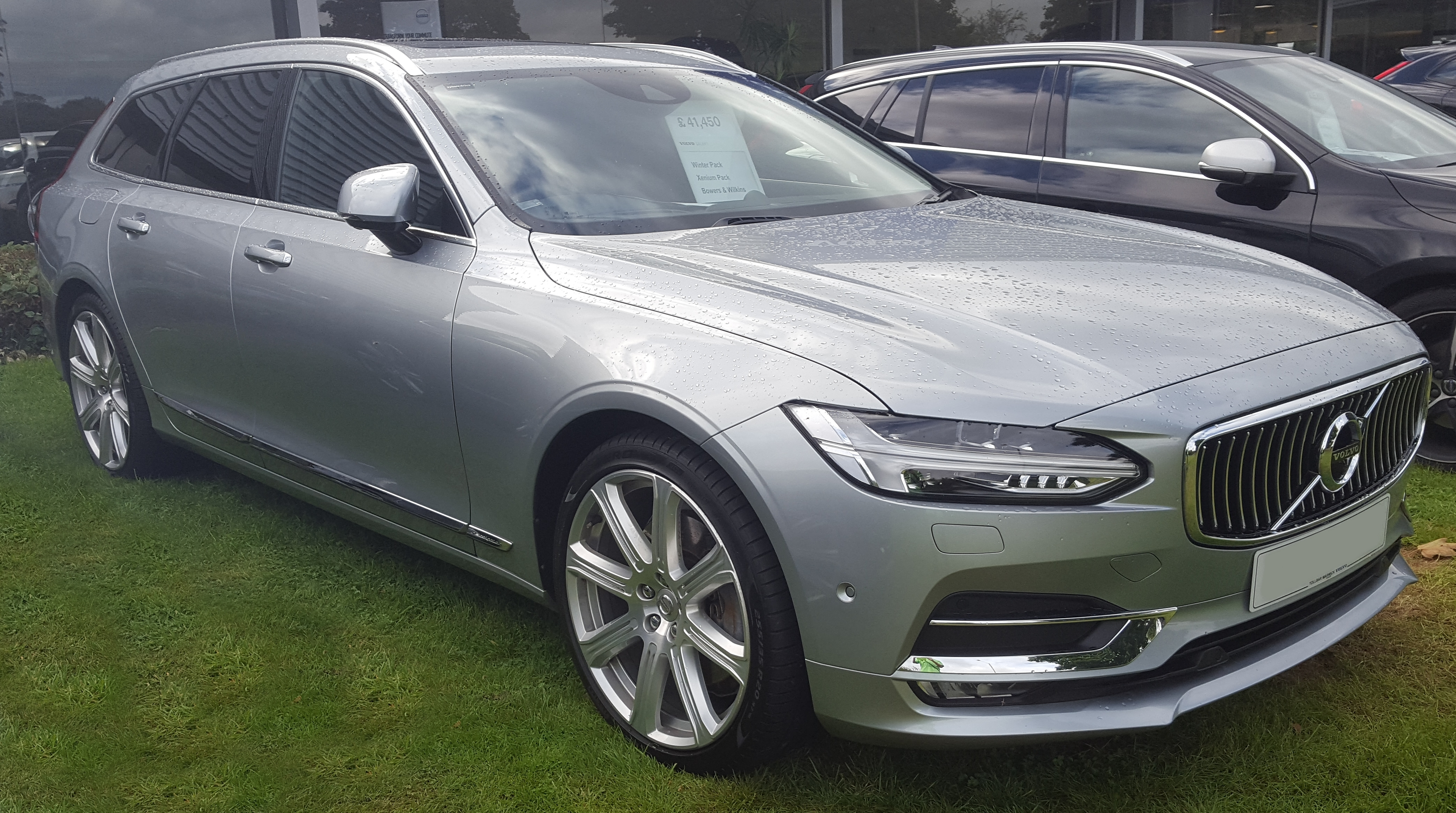 2016 Volvo V90 Inscription D5 PP AWD 2.0 Front Taken in Leamington Spa